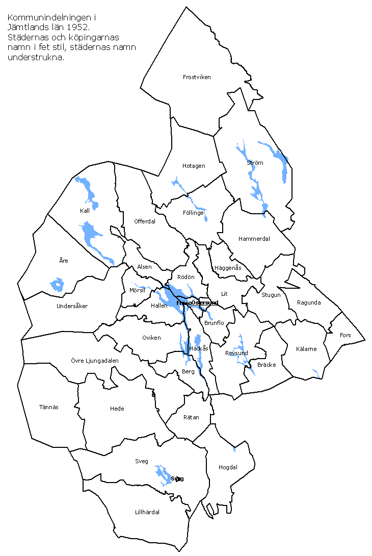 Municipalities of Jämtland County 1952.